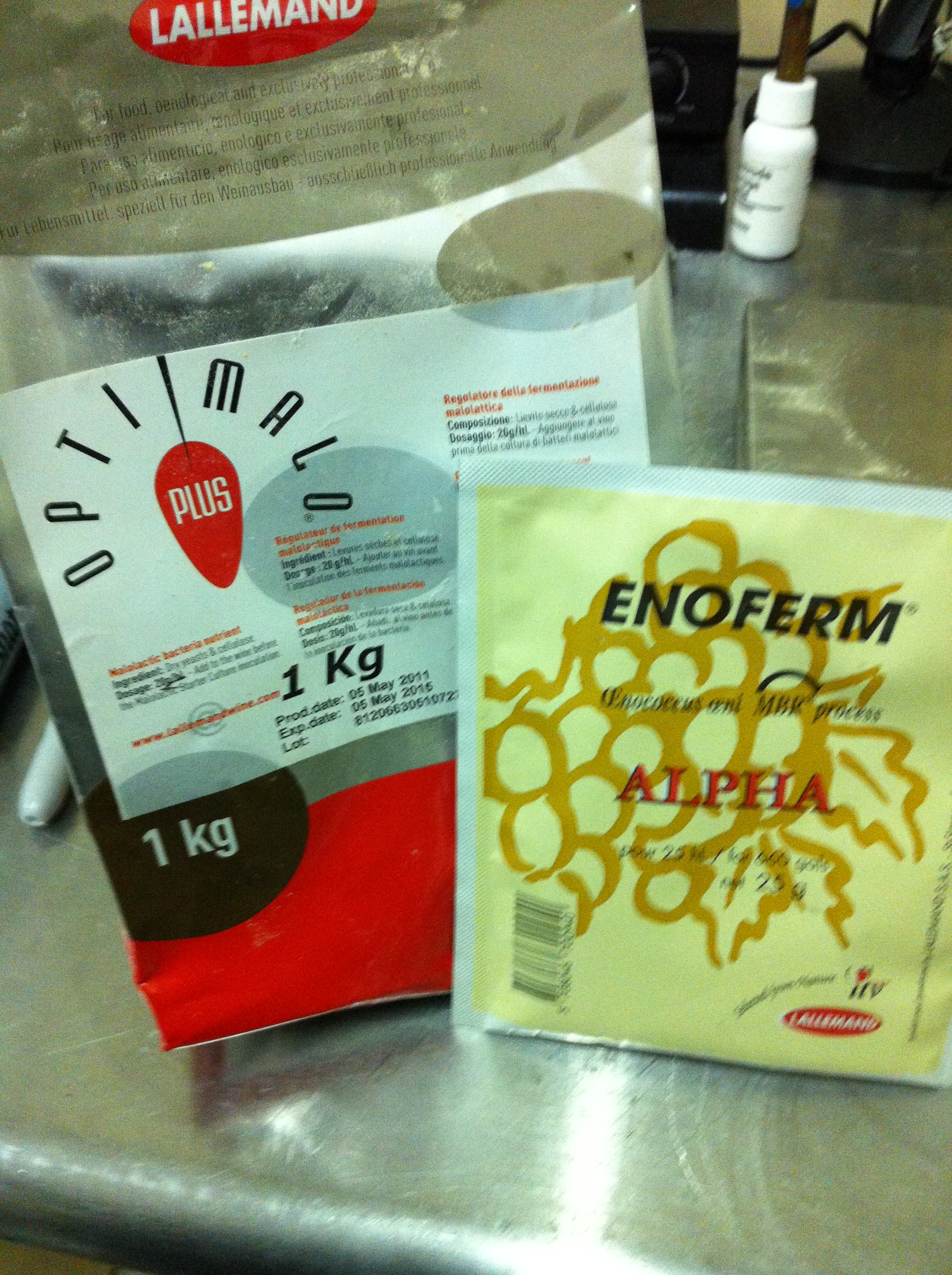 Sample of malolactic bacteria inoculum and nutrient